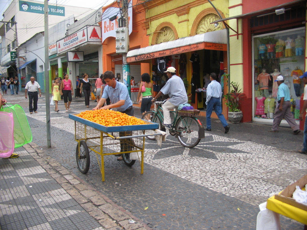 A "pequi" (Caryocar brasiliense) seller, very common scene on the streets of Cuiabá, Brazil.